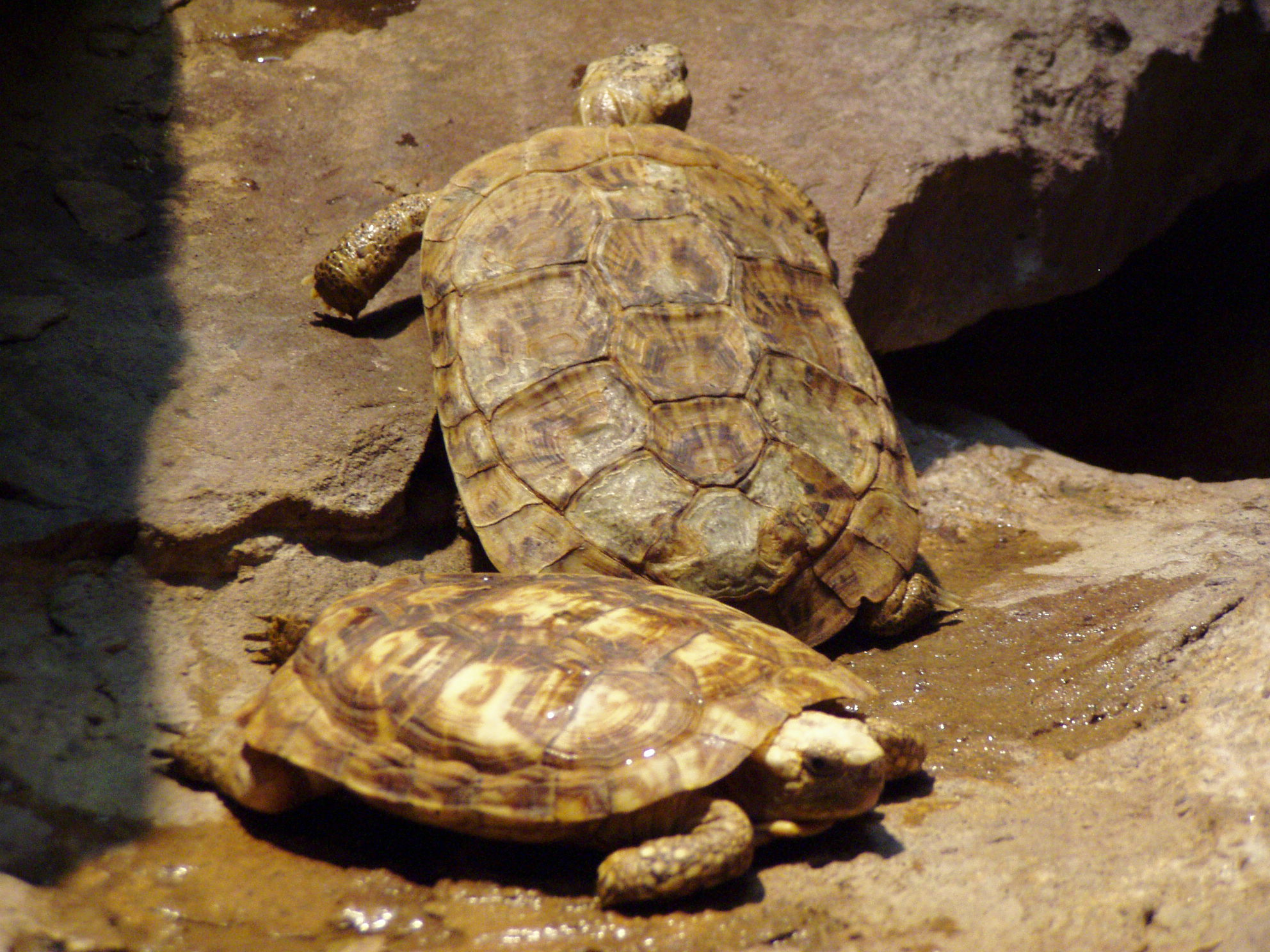 Two Pancake Tortoises at the Buffalo Zoo.